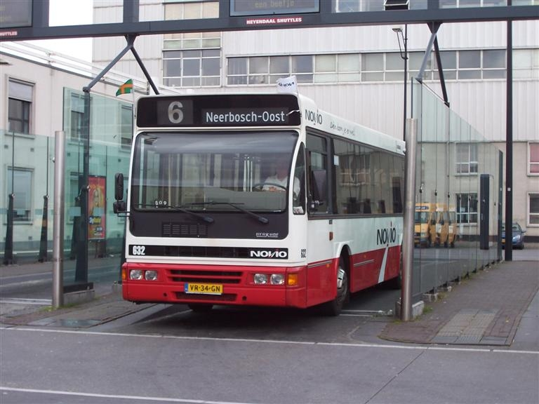 Hainje/Berkhof ST2000.